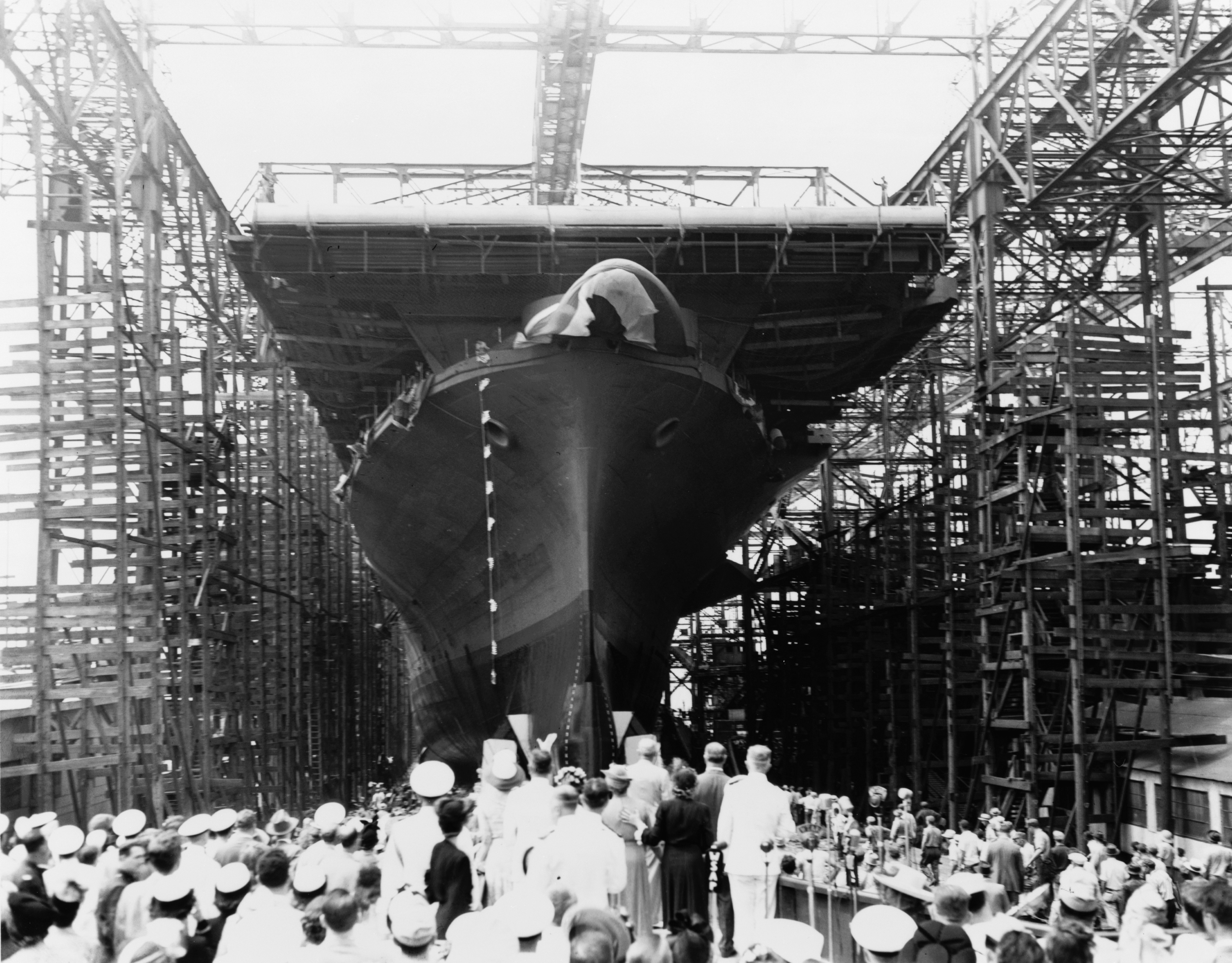 Launching of the U.S. Navy aircraft carrier USS Hornet (CV-12) at Newport News Shipbuilding, Virginia (USA).